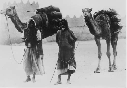 A Bedouine of Arabian Peninsula Holding ARope OF A Camel